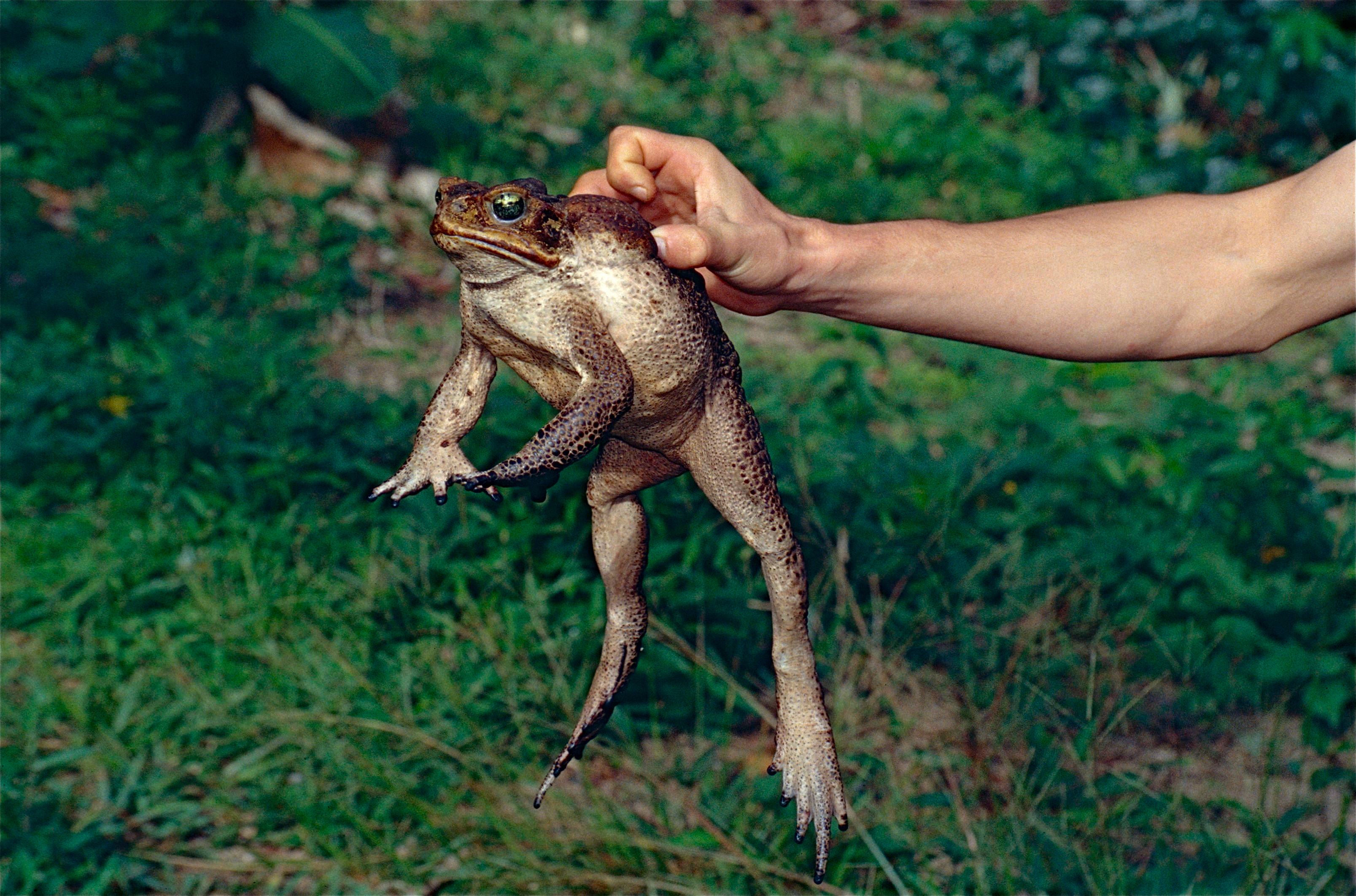 Saül, Guyane, FRANCE Scanned Slide from 2000